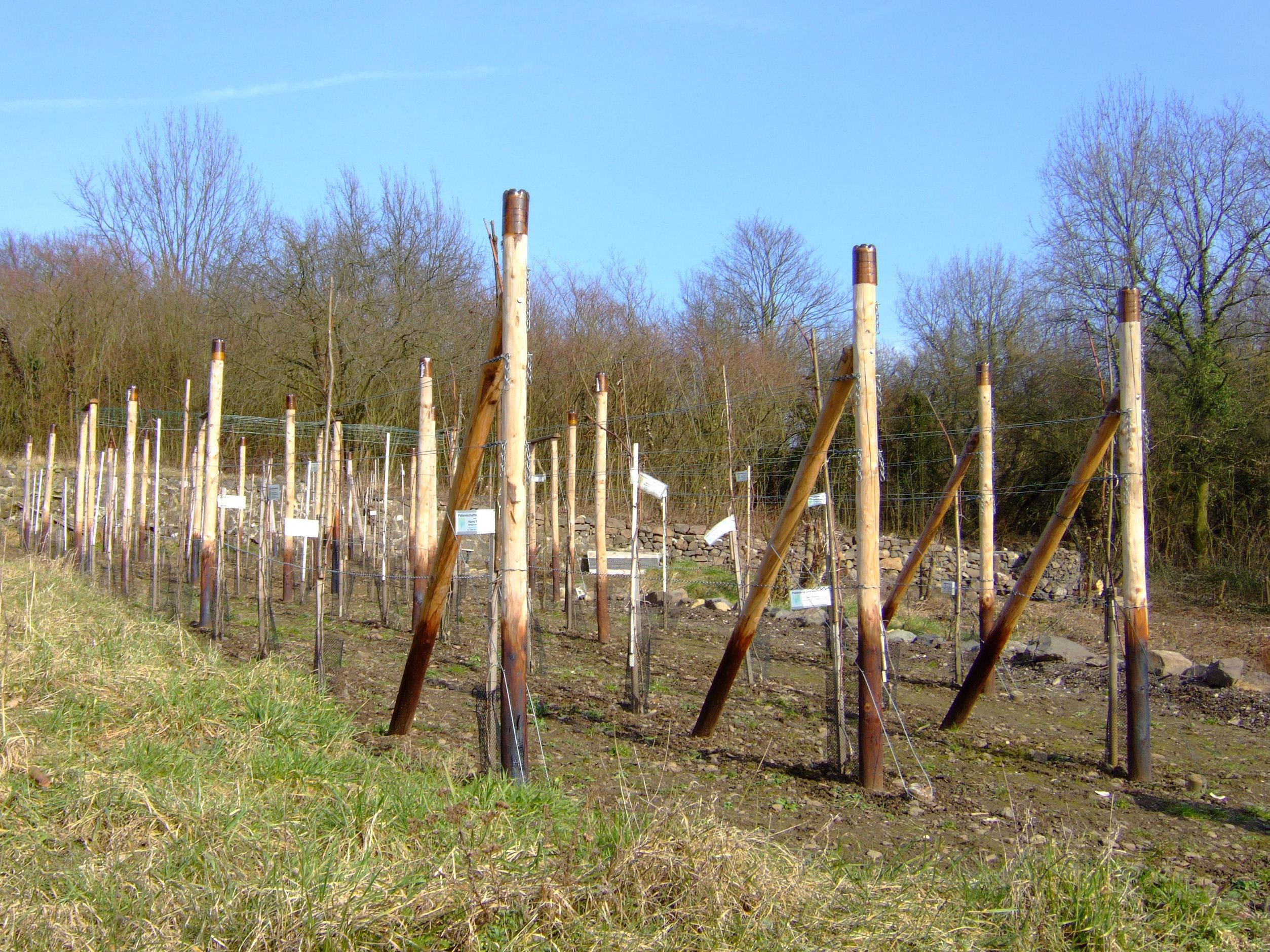 Vineyard in the Bonner district Limperich